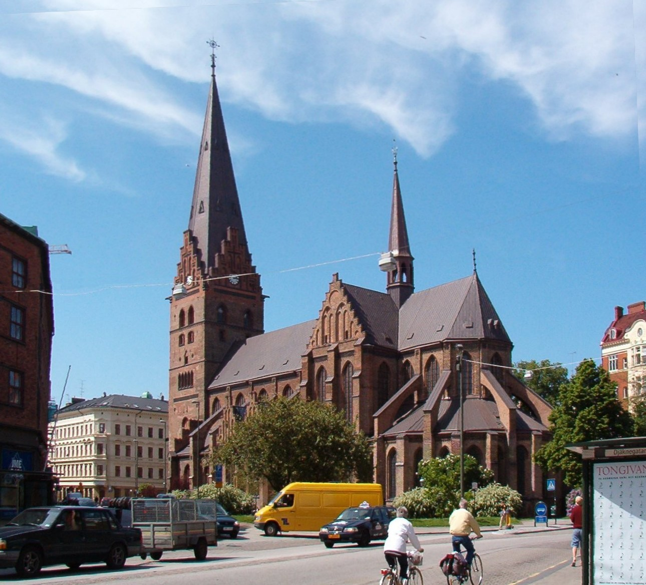 St Petri Church in Malmö, Sweden